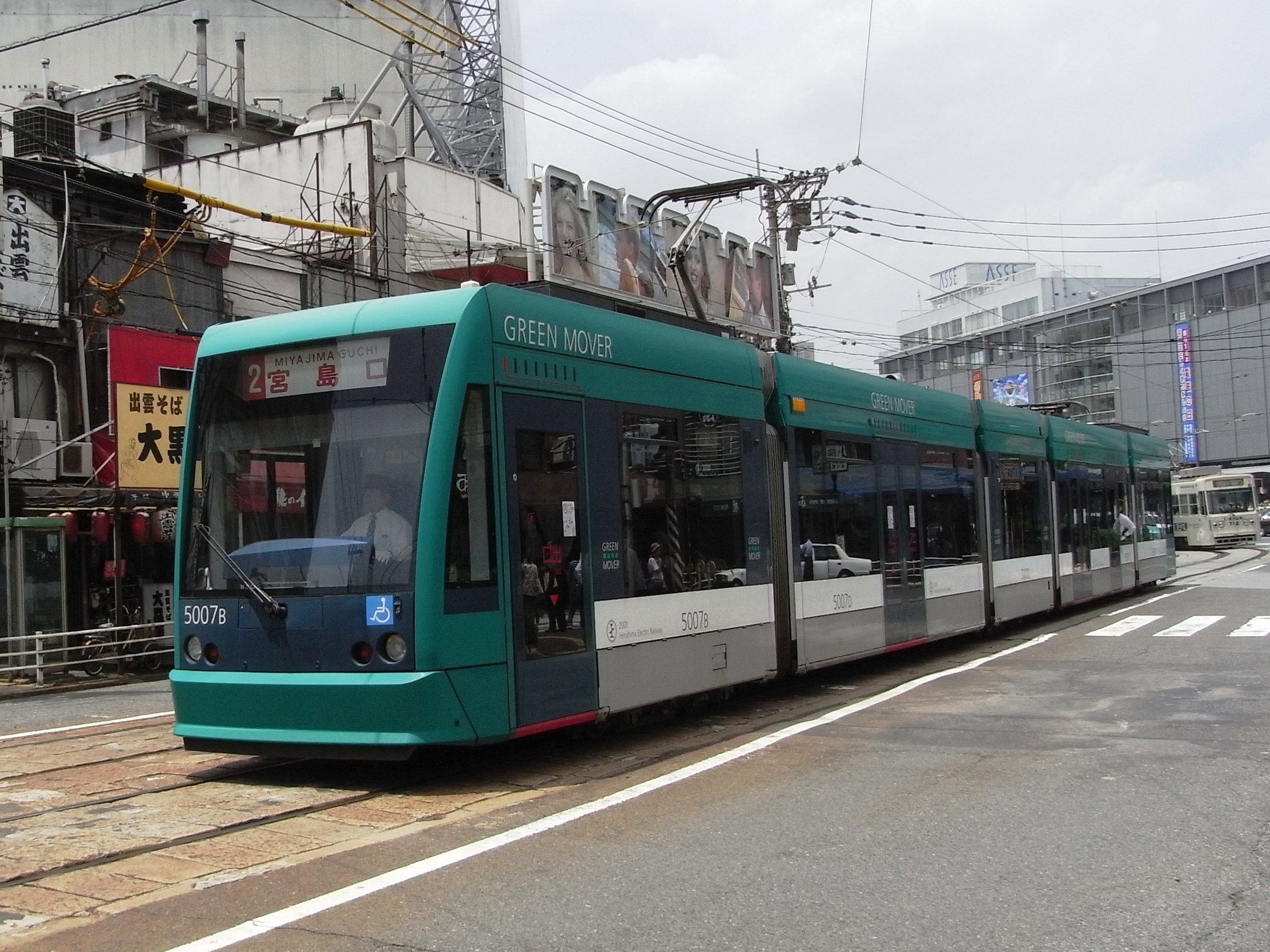 Hiroshima Electric Railway 5000 series tramcar, taken in May 2008